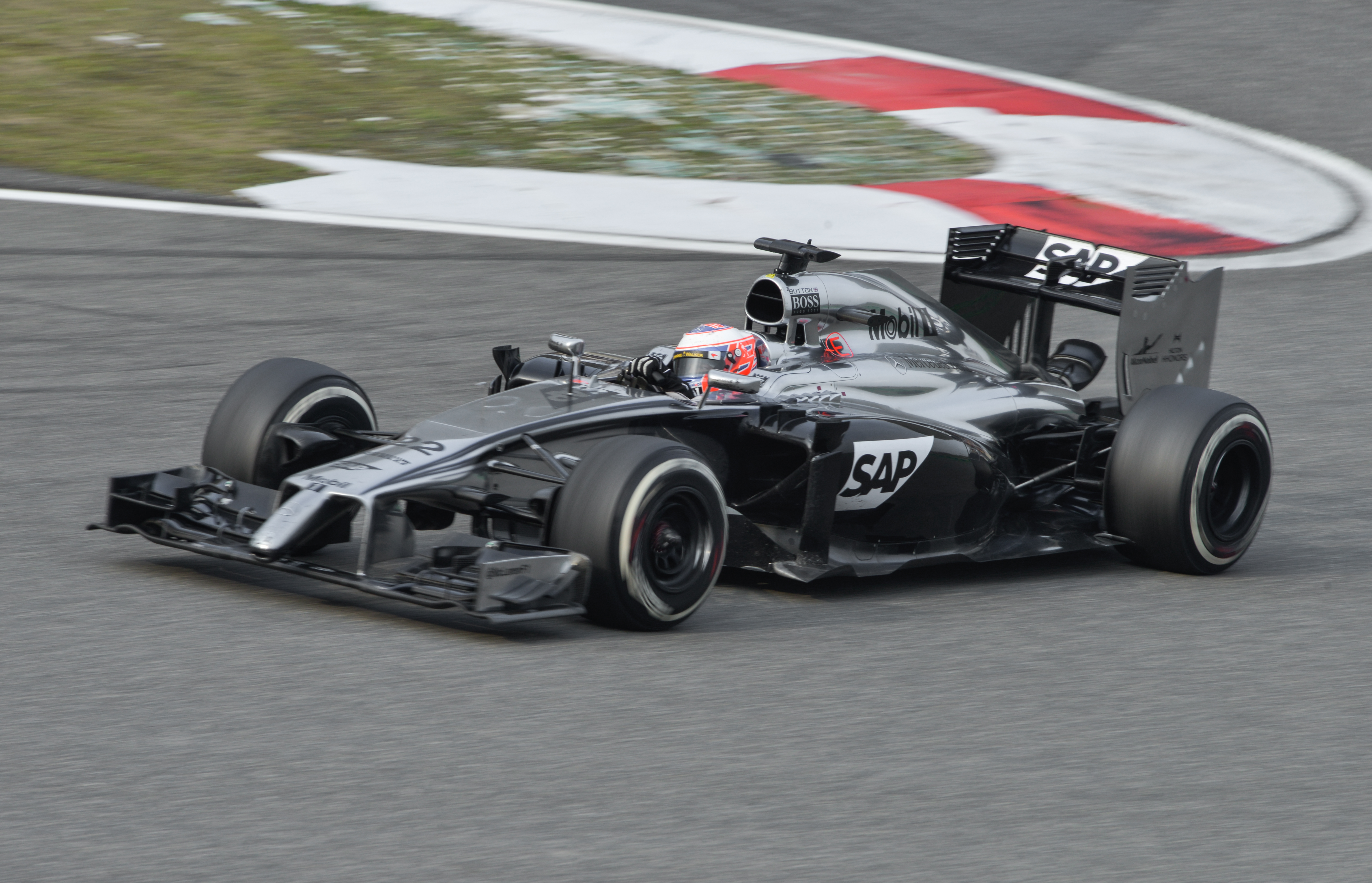 Mclaren MP4-29, Jenson Button, 2014 F1 Chinese GP